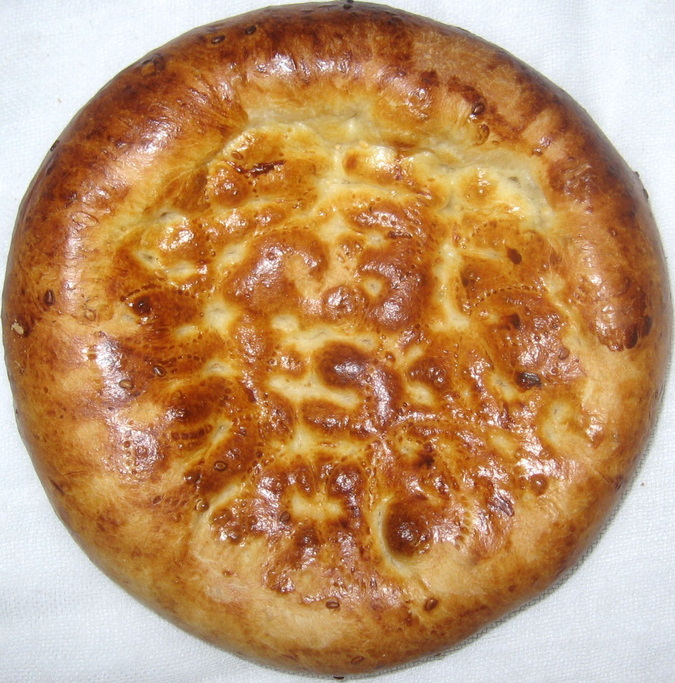 (kichik) pitir nan, (small) flatbread baked in tandoor. Common for Central Asia (Uyghur people, Kazakhstan, Kyrgyzstan, Tajikistan, Uzbekistan)